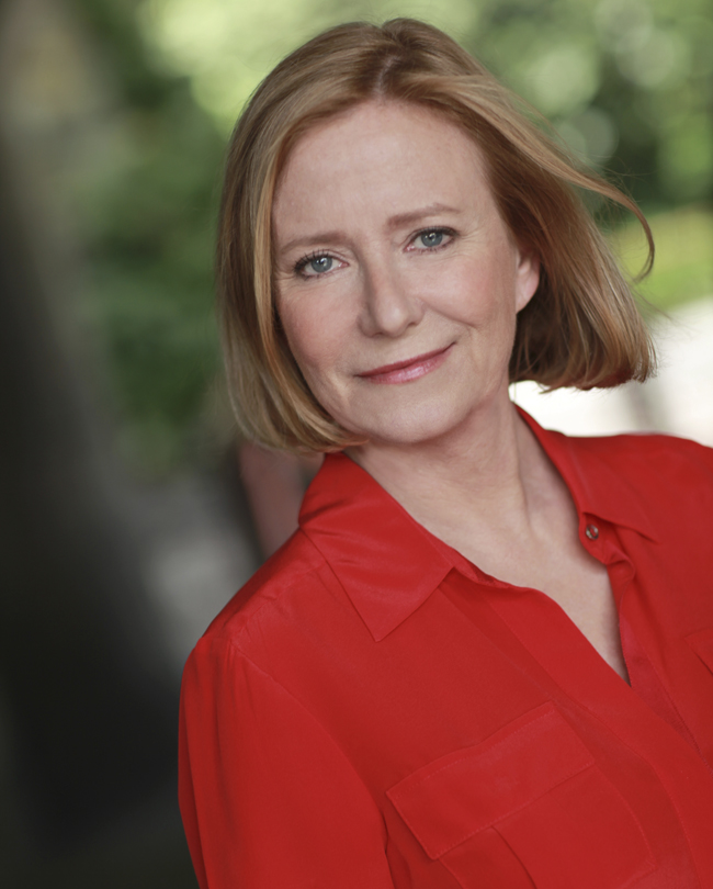 Eve Plumb Official Headshot 2012